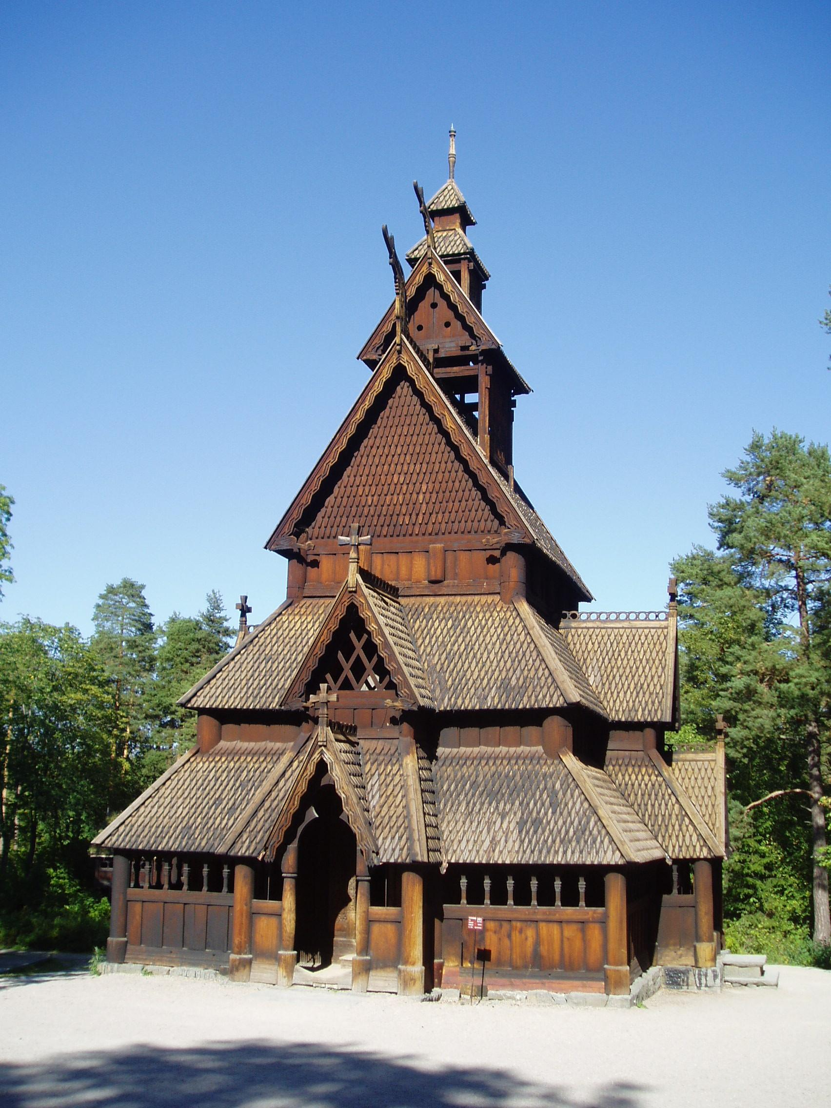 Stave Church at the Norwegian Folk Museum, Oslo